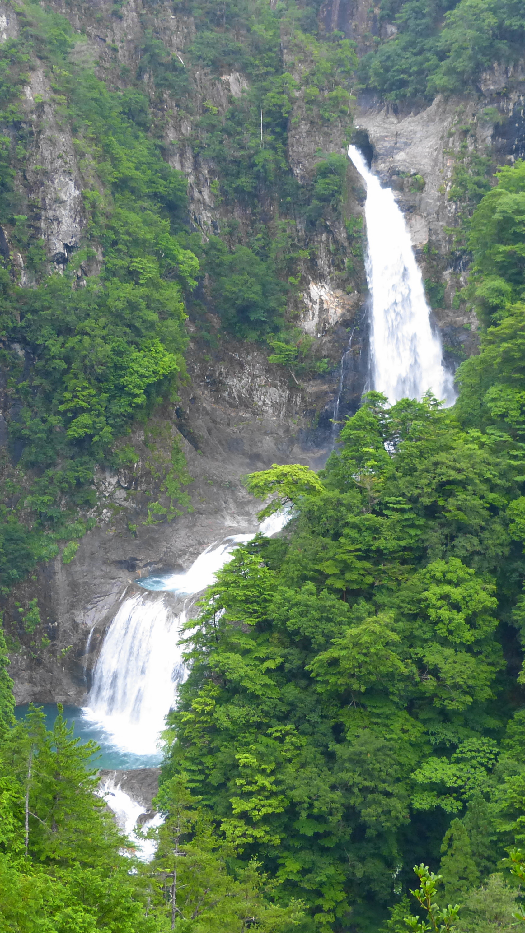 1Fudō-nanae Falls in Nara Prefecture, Japan